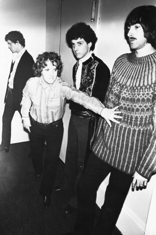 Photo of the Velvet Underground by Billy Name, 1968